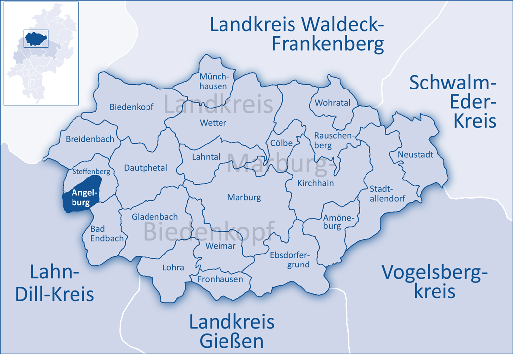 The map shows the municipal territory of Angelburg in the district of Marburg-Biedenkopf.